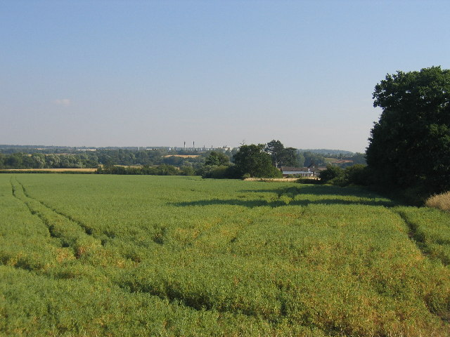 Willenhall, Coventry, England.View looking south east across Brandon Grounds from the Coventry Eastern bypass as it crosses the square. The chimneys in the distance belong to the car plant beside the A45 at Ryton on Dunsmore.